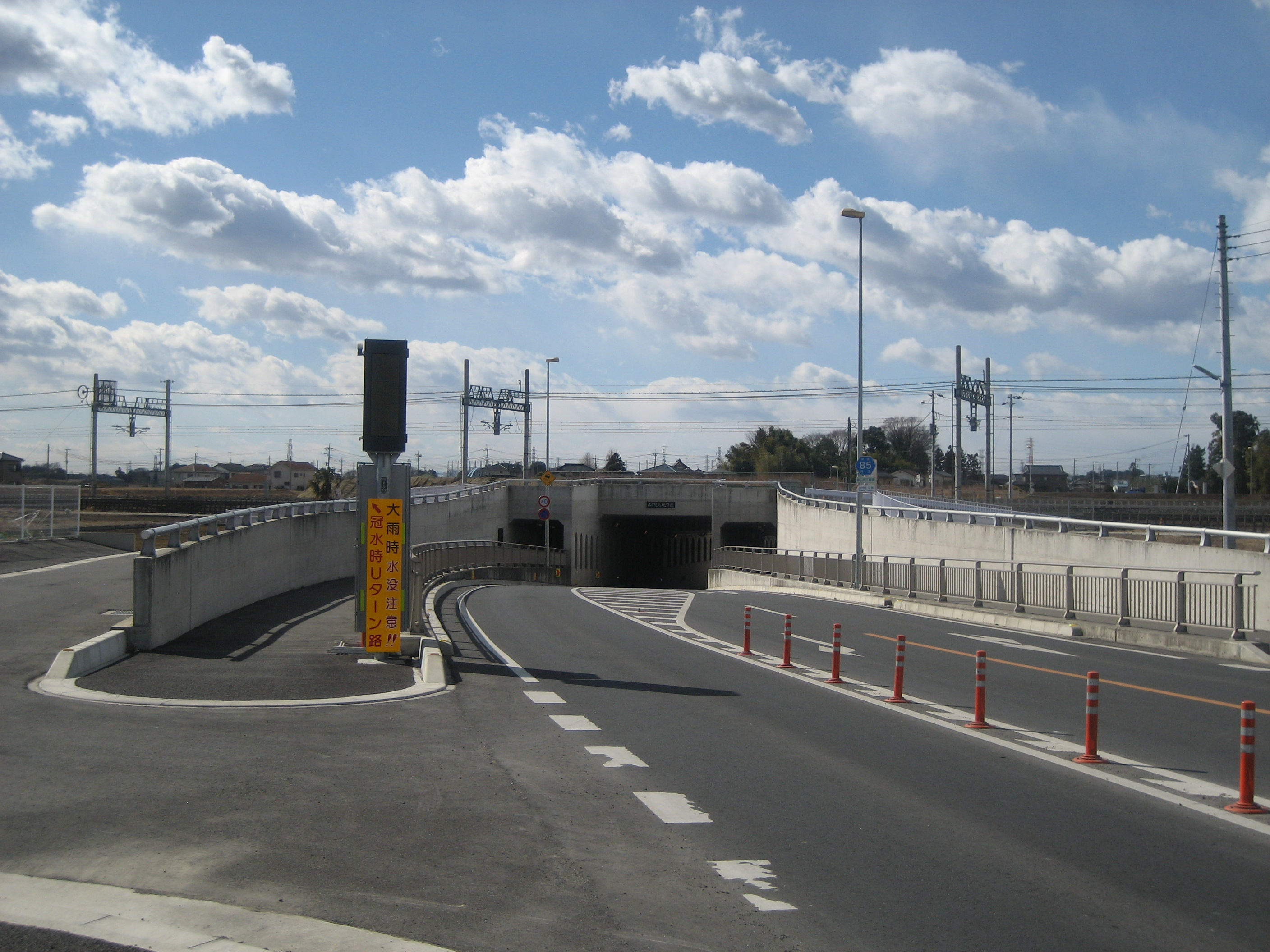 The Miyashiro Underpass on the Saitama Prefectural Road Route 85 in Miyashiro Town